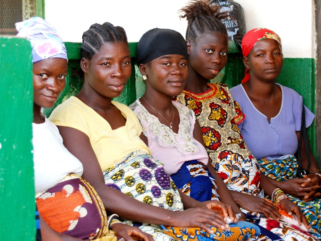 USAID is helping Liberia restore quality women's health services. (USAID)